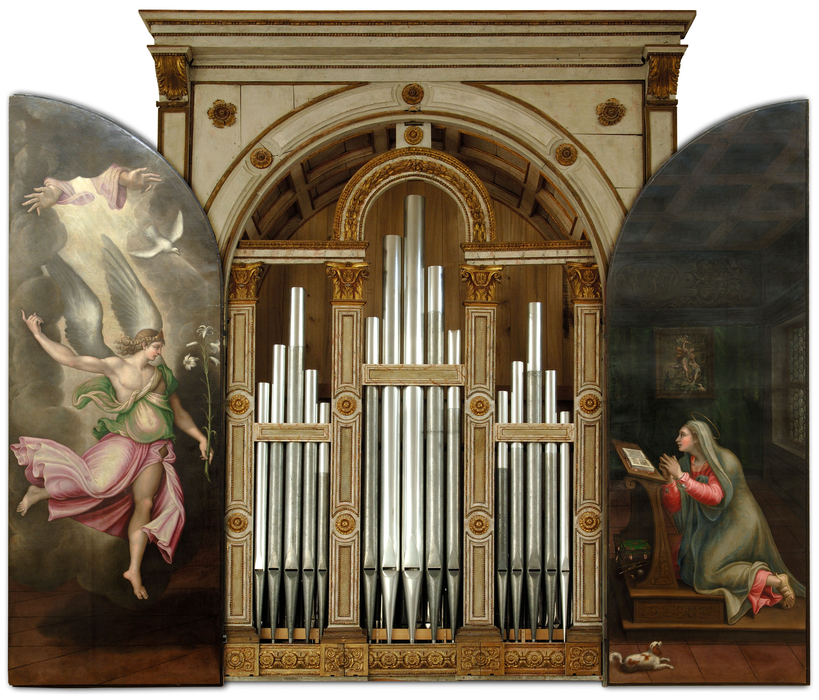 Organ by Graziadio Antegnati (1565) in S. Barbara, Mantova (Italy)